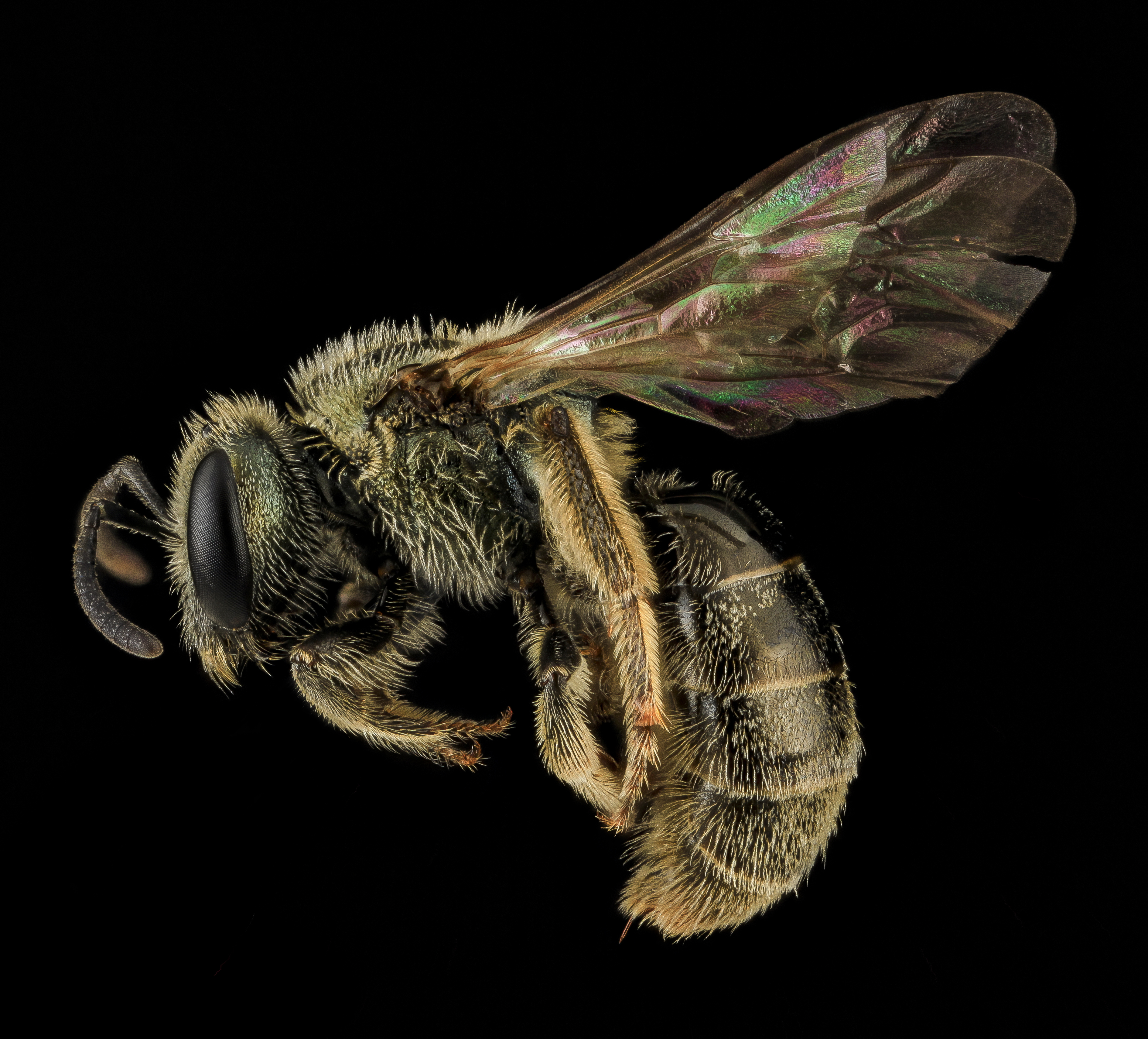 Lasioglossum versatum, female. One of the common Dialictus group Lasioglossum species, often involved in confusion among several similar species. This one collected by Tim McMahon in Cecil County Maryland